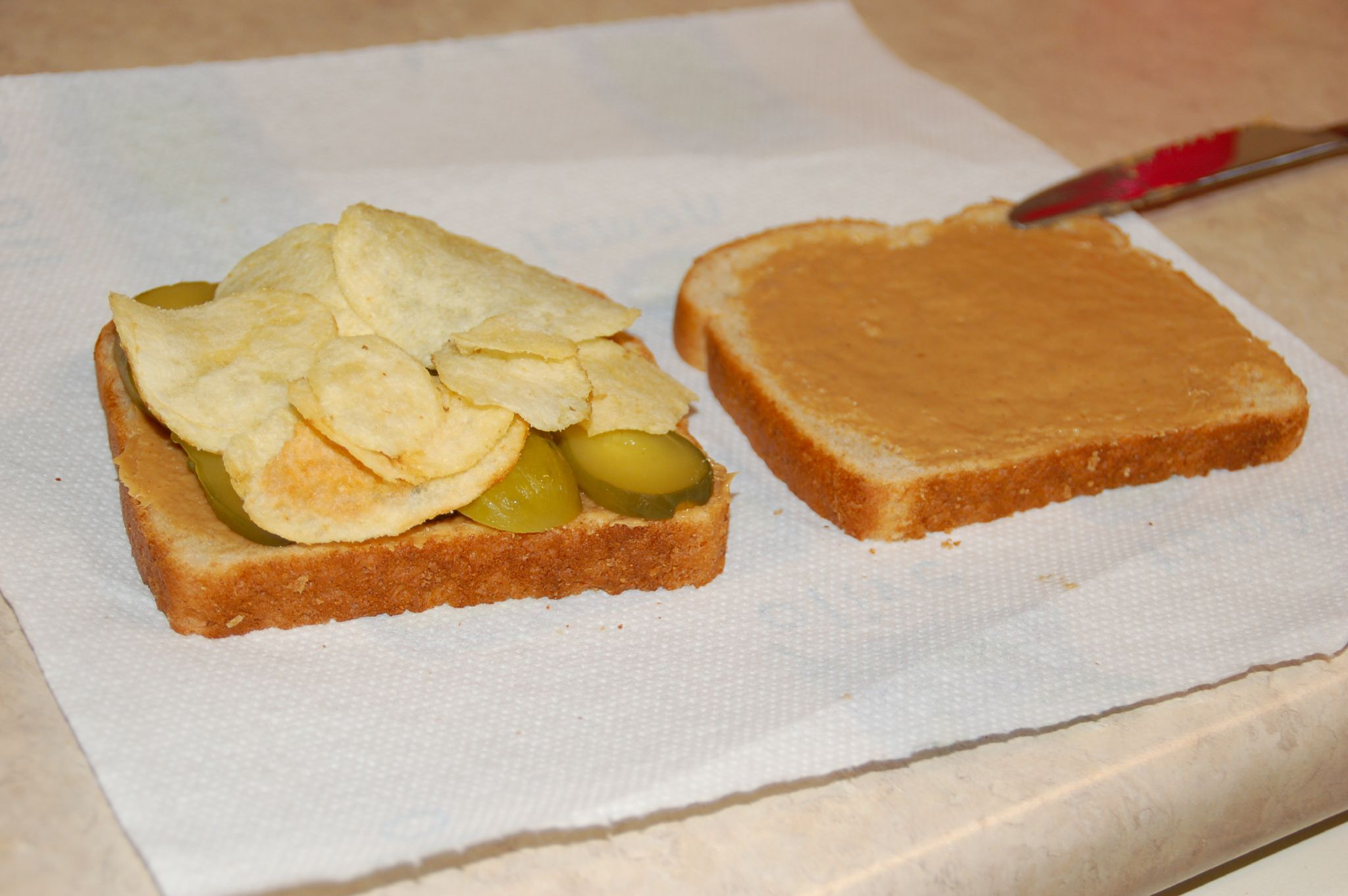 Author: abardwell Source: [1] URL: [2]